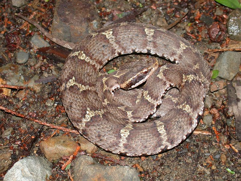 A mamushi lying coiled on the ground, ready to strike. It is a venomous pit viper found in Japan, the Koreas, China, and Russia. This snake was seen near a village in Wakayama Prefecture in central Japan. Copy of original image uploaded to the Japanese Wikipedia by Ｋｓ under GFDL.